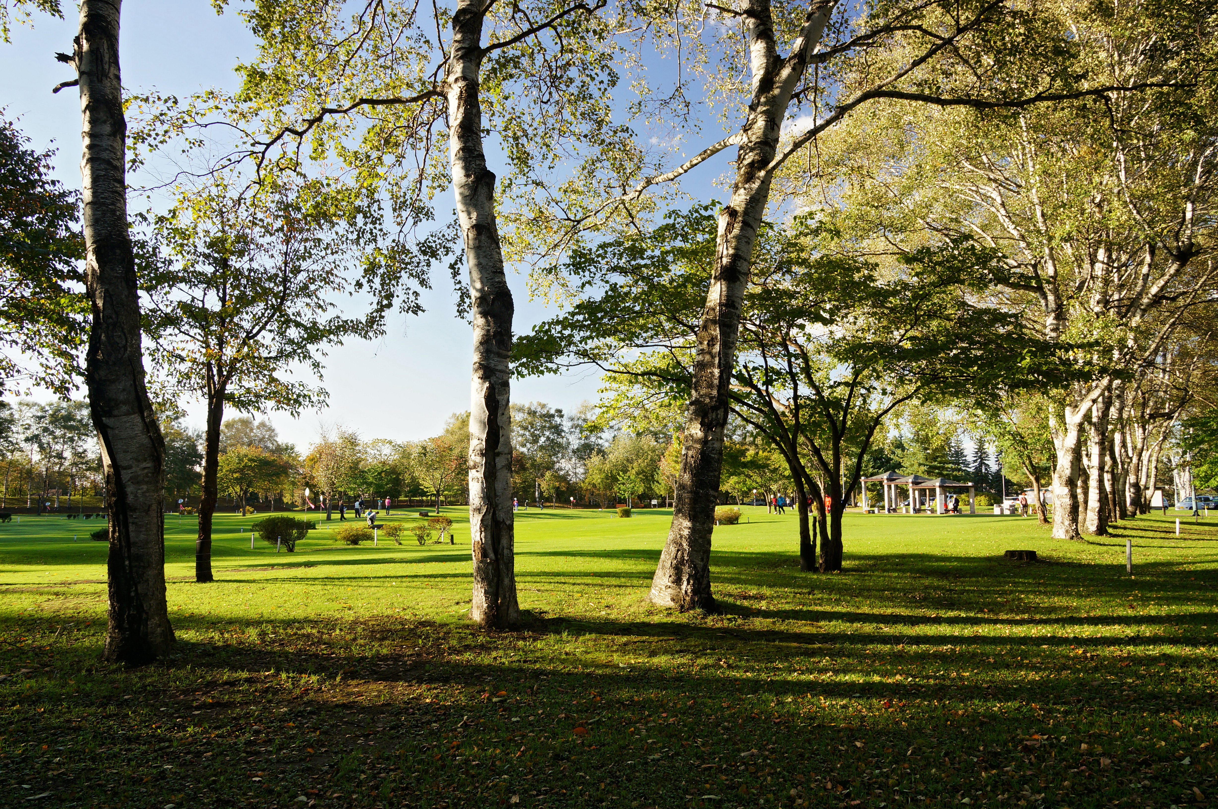 Midorigaoka Park in Obihiro, Hokkaido prefecture, Japan.